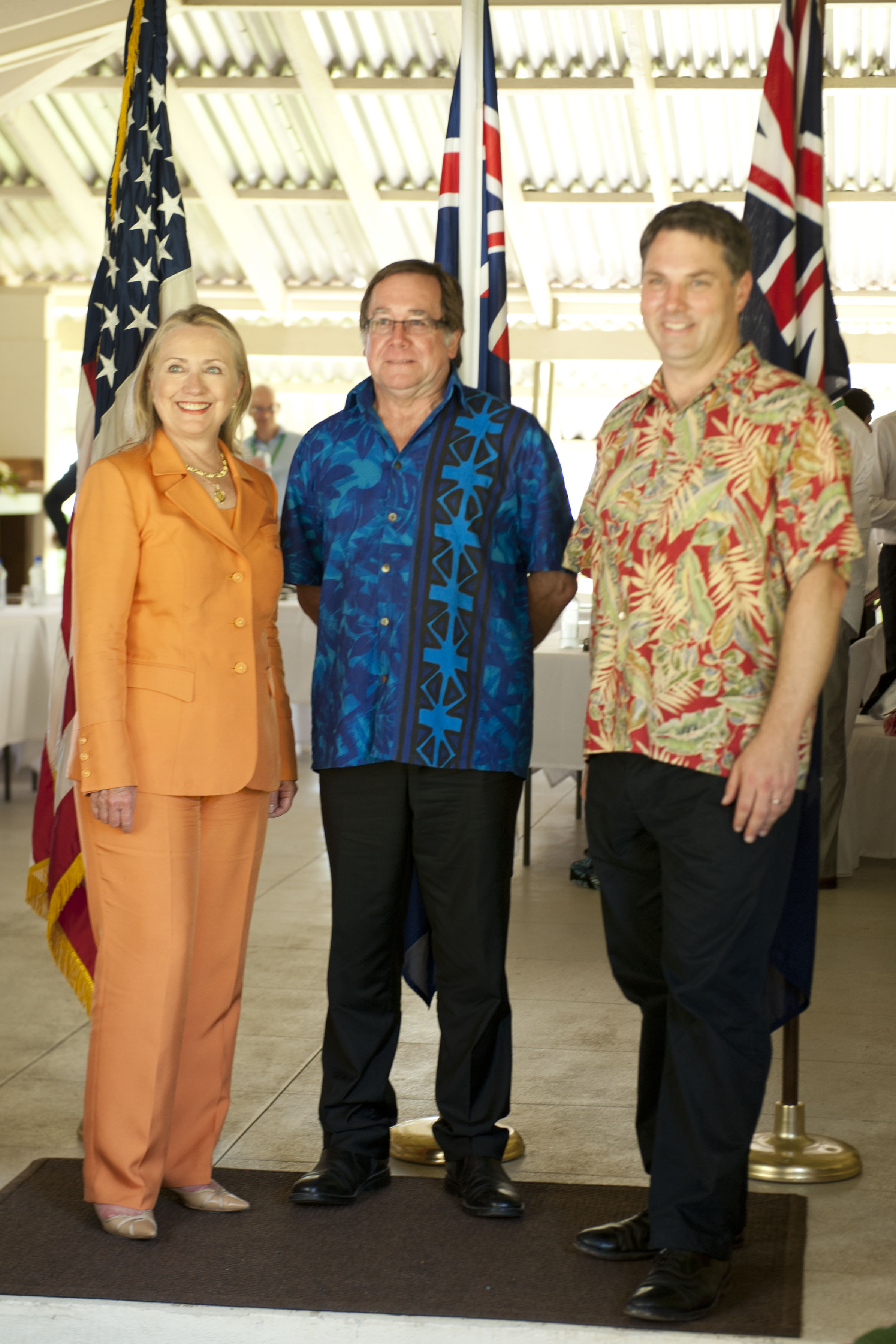 U.S. Secretary of State Hillary Rodham Clinton poses for a photograph with New Zealand Foreign Minister Murray McCully and Australian Parliamentary Secretary Richard Marles at the Pacific Islands Forum in Rarotonga, Cook Islands, August 31, 2012. [State Department photo/ Public Domain]